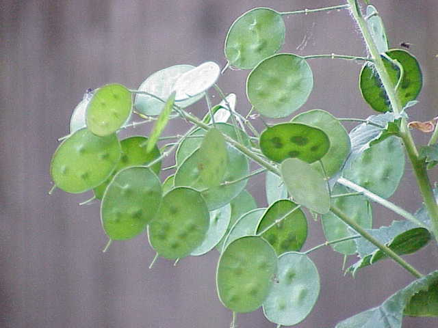 Species: Lunaria annua Family: Brassicaceae Image No. 1